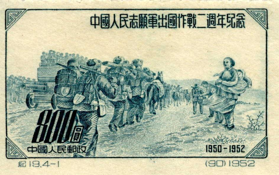 Chinese soldiers marching past peasants